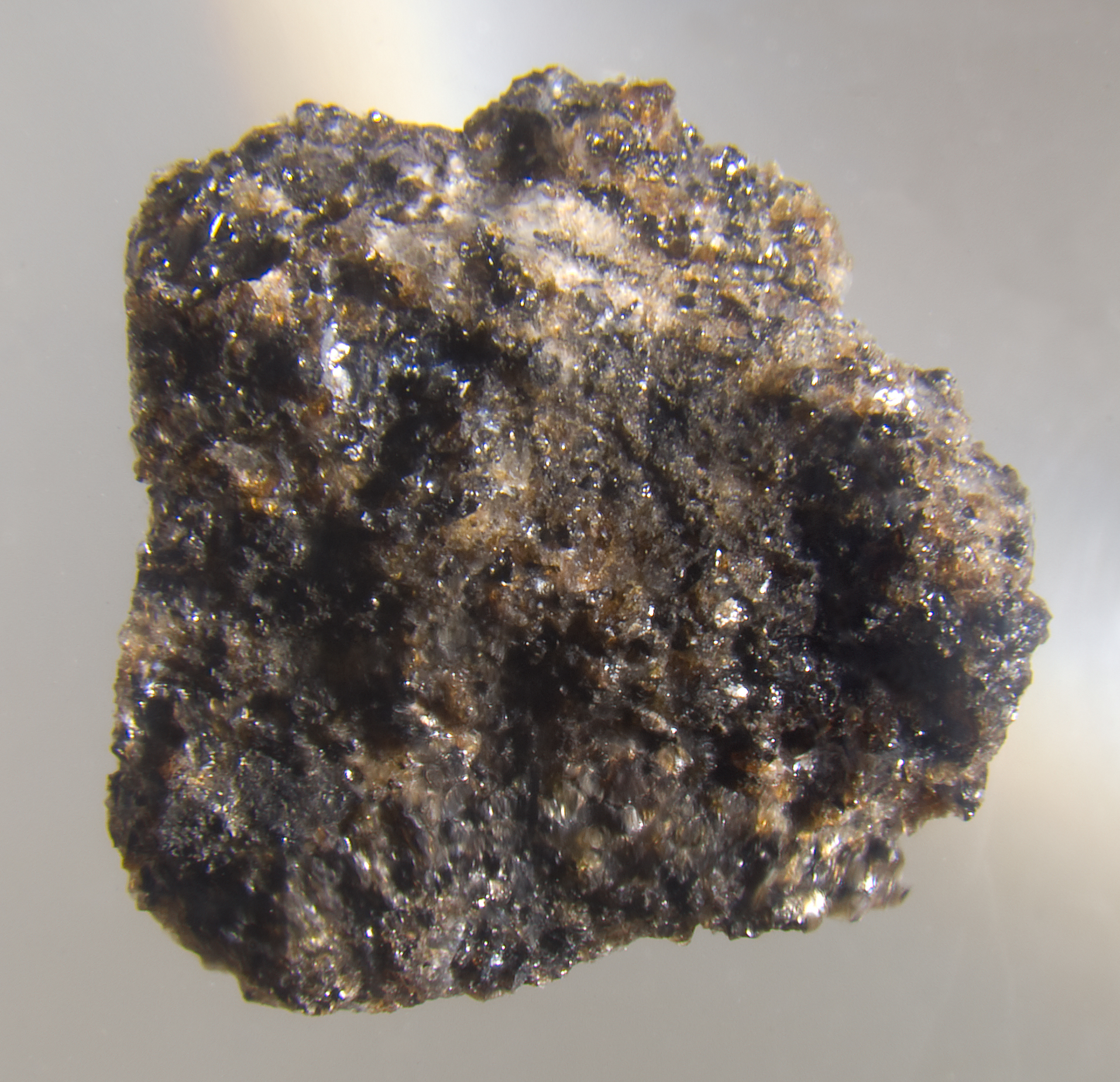 Close-up image of rock fragment (encased in acrylic) from the Apollo 17 mission to the moon. Donated to the State of Illinois. Image courtesy of the Illinois State Museum and NASA.